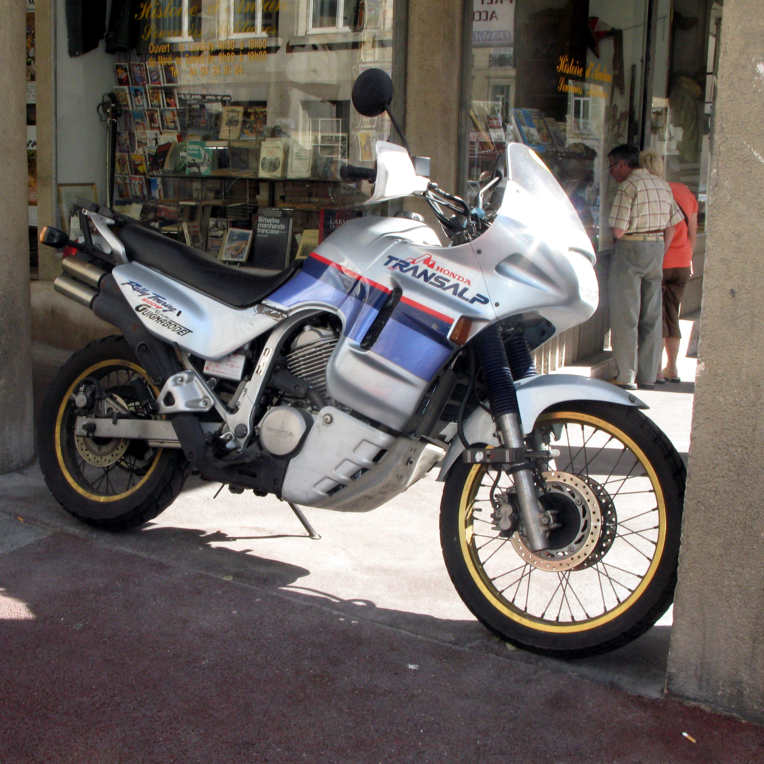 Honda Transalp